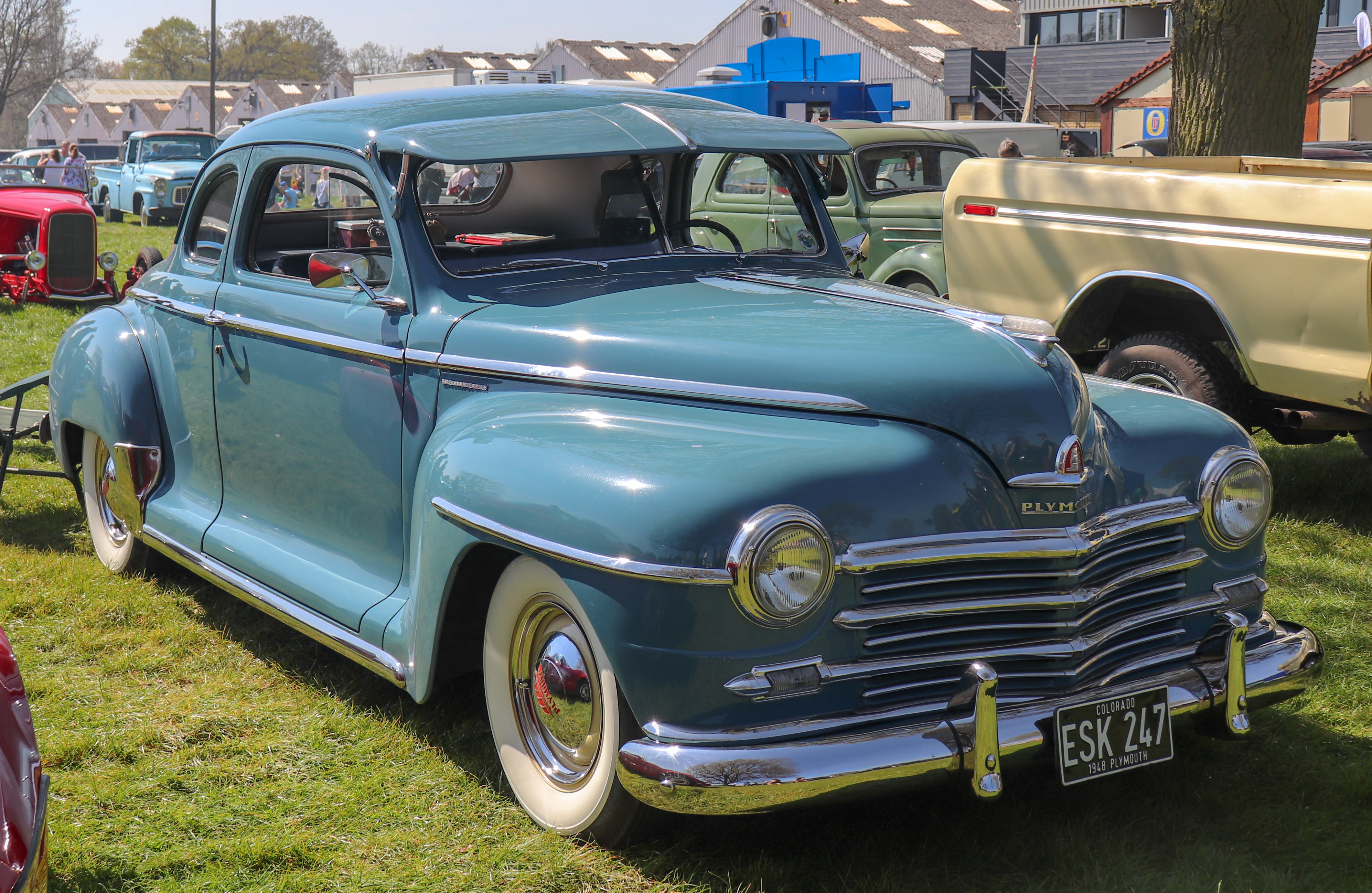 1948 Plymouth Special De Luxe Club Coupe 3.5 Taken at the Midlands Auto Fest 2019 NAEC Stoneleigh, Stoneleigh, Coventry